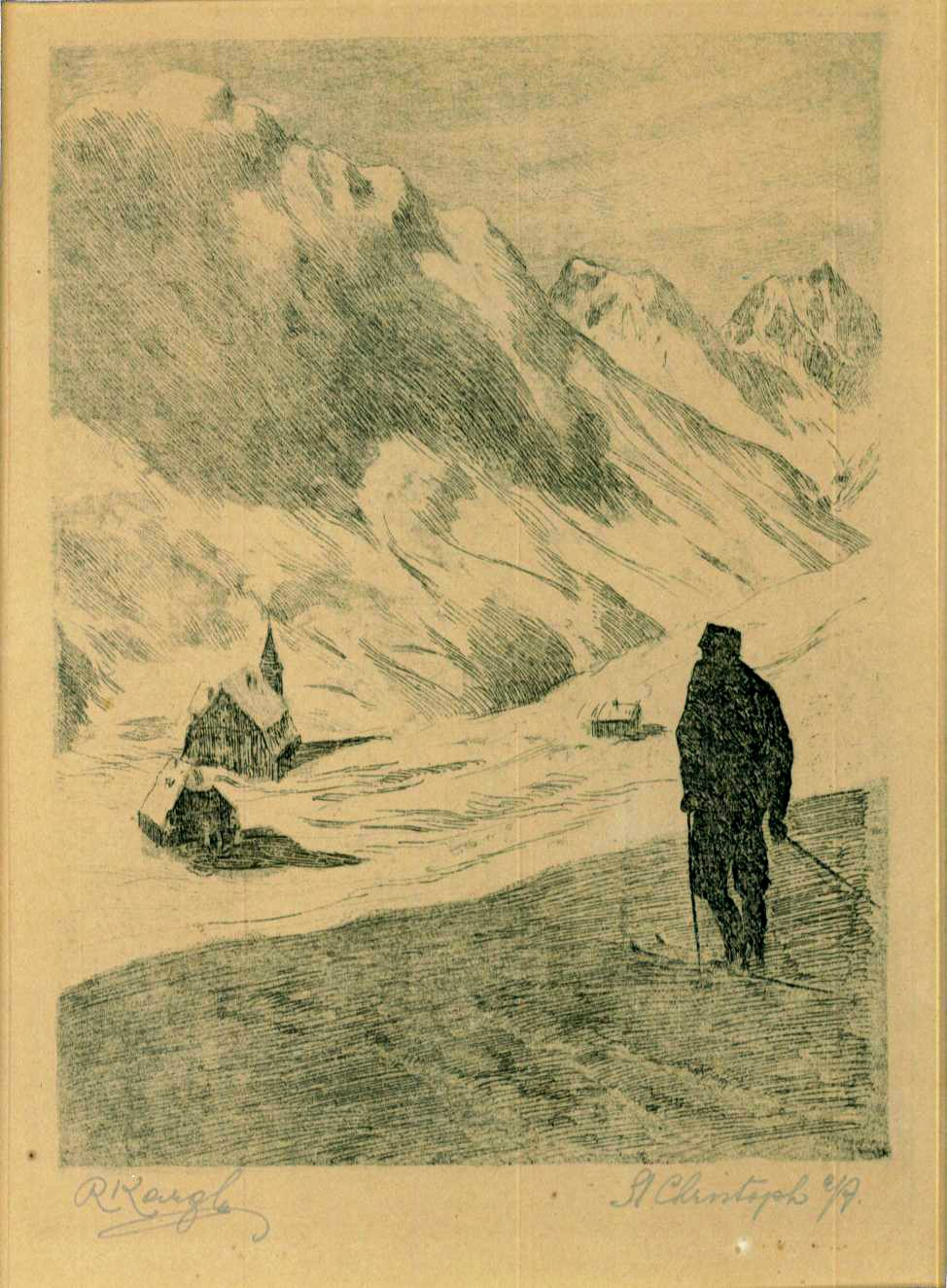 Rudolf Kargl, St. Christoph 1917